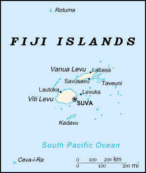 Named map of the Fiji Islands, east of Australia. The map is narrowed to magnify labels +10% and is in GIF format for precise editing and quick display, as a thumbnail (which can be 5x to 10x times faster than the bulky, slow PNG format).